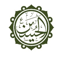 Shiite imam